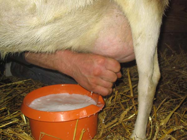 Milking a goat by hand